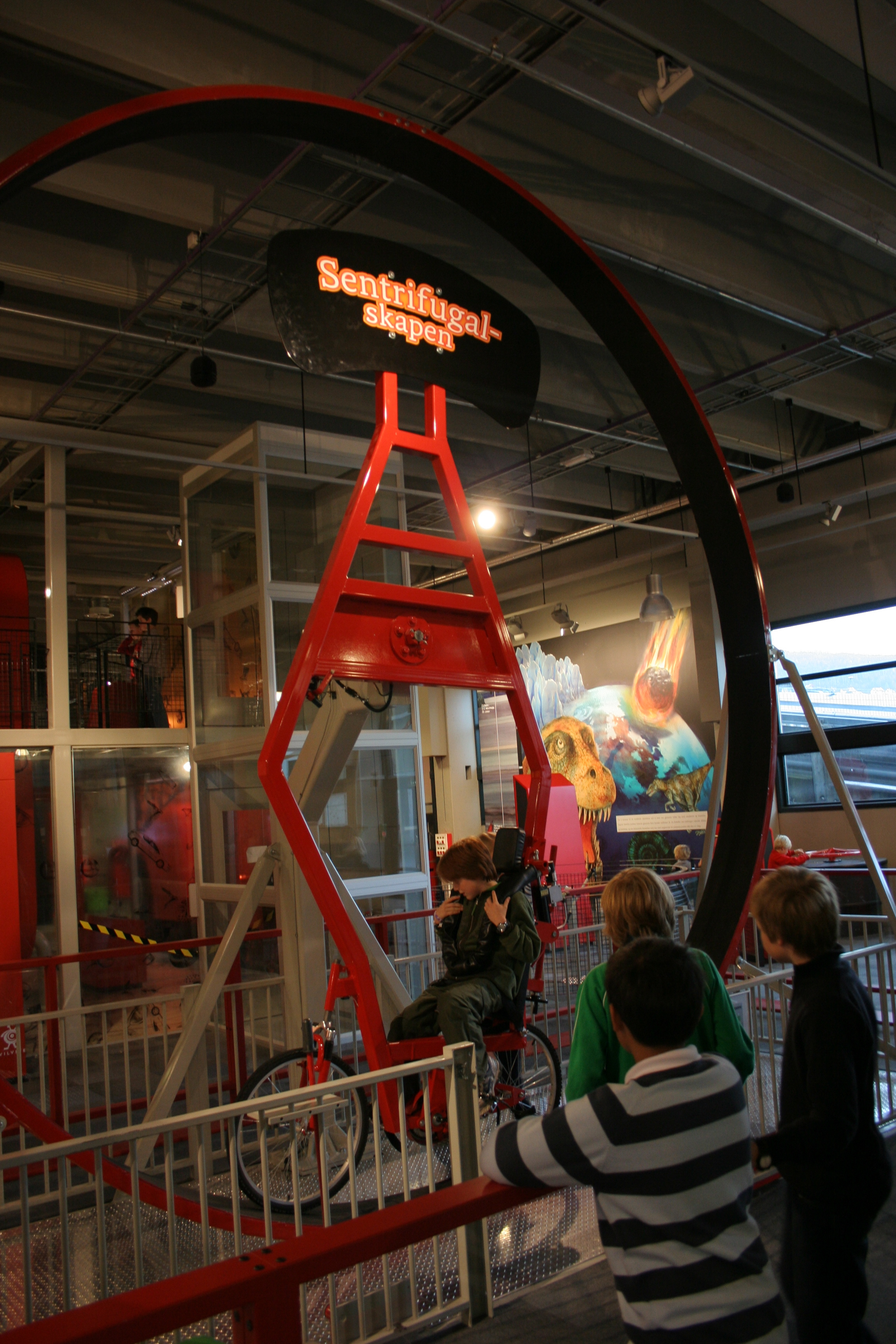 The 'Sentrifugalskapen', centrifugal force bike, Bergen Science Centre. (Norway)